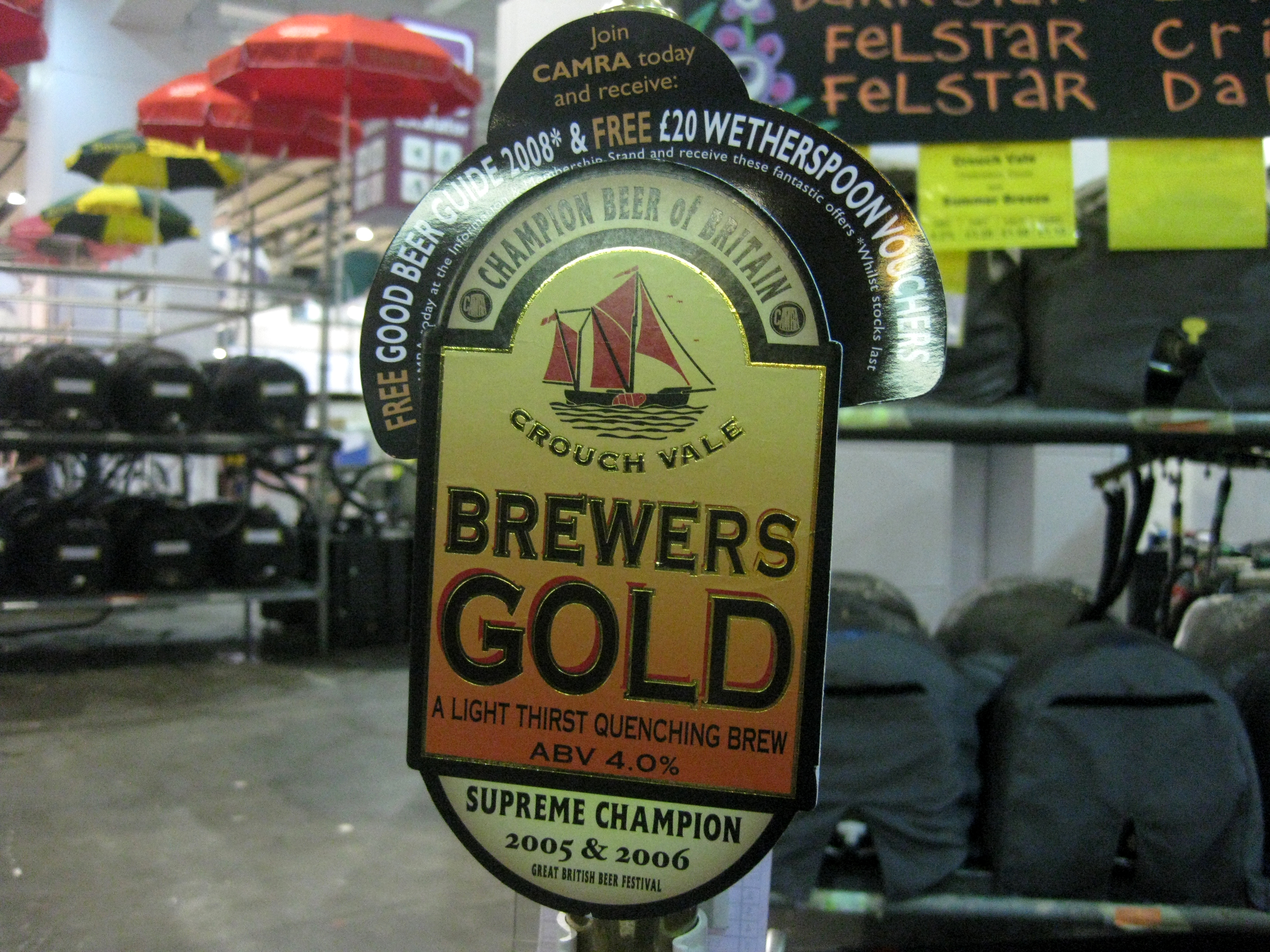 Crouch Vale Brewers Gold (a past Champion Beer of Britain supreme champion) pump clip on a hand pump at the Great British Beer Festival 2008.